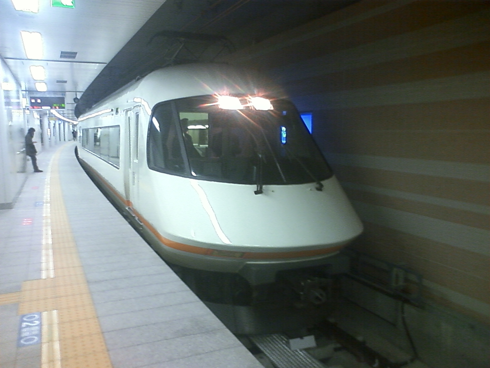 A Kintetsu 21000 forwarding train stopping at the Hanshin Sakuragawa station